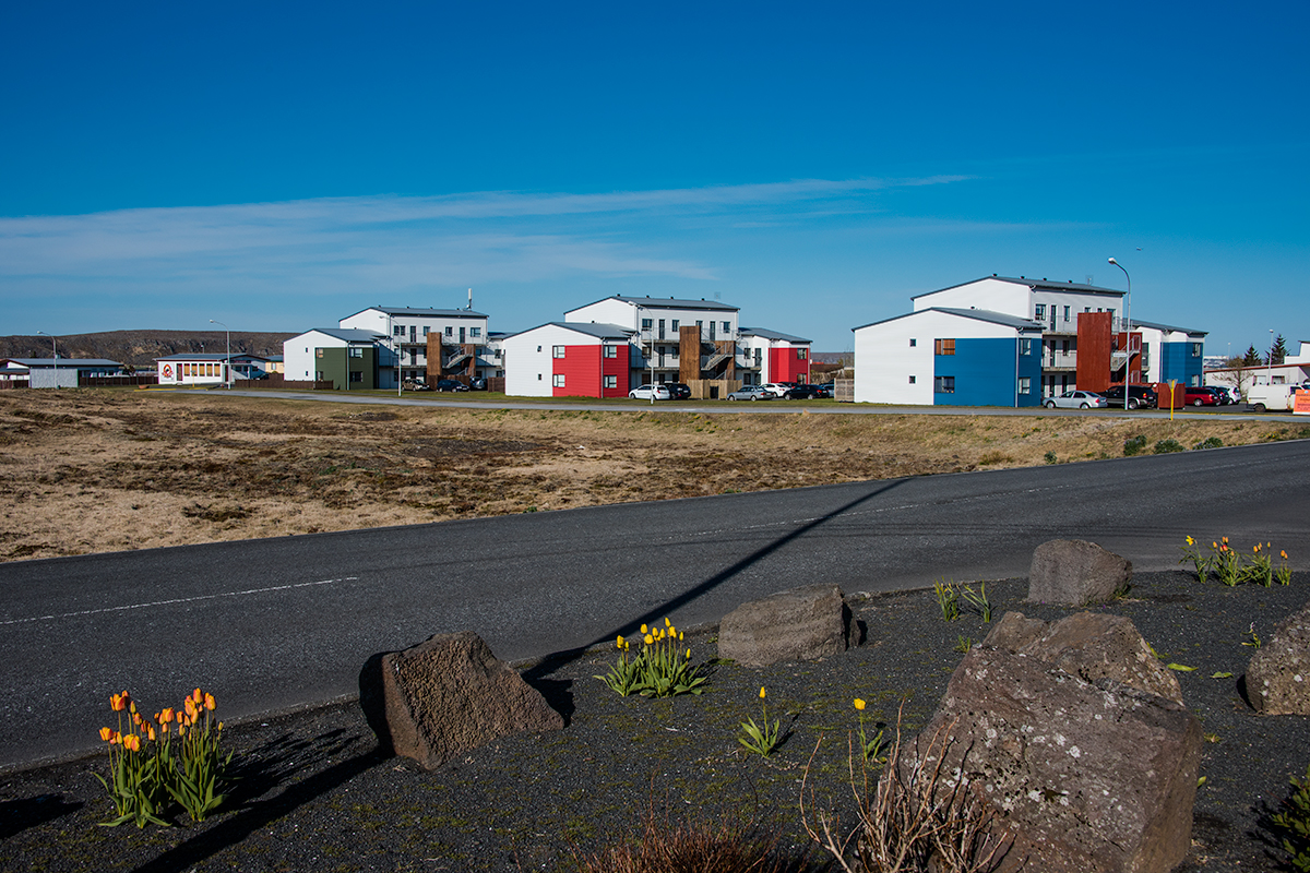 Vogar town at Reykjanes Peninsula Other information Photographer Einar Páll Svavarsson at Hit Iceland